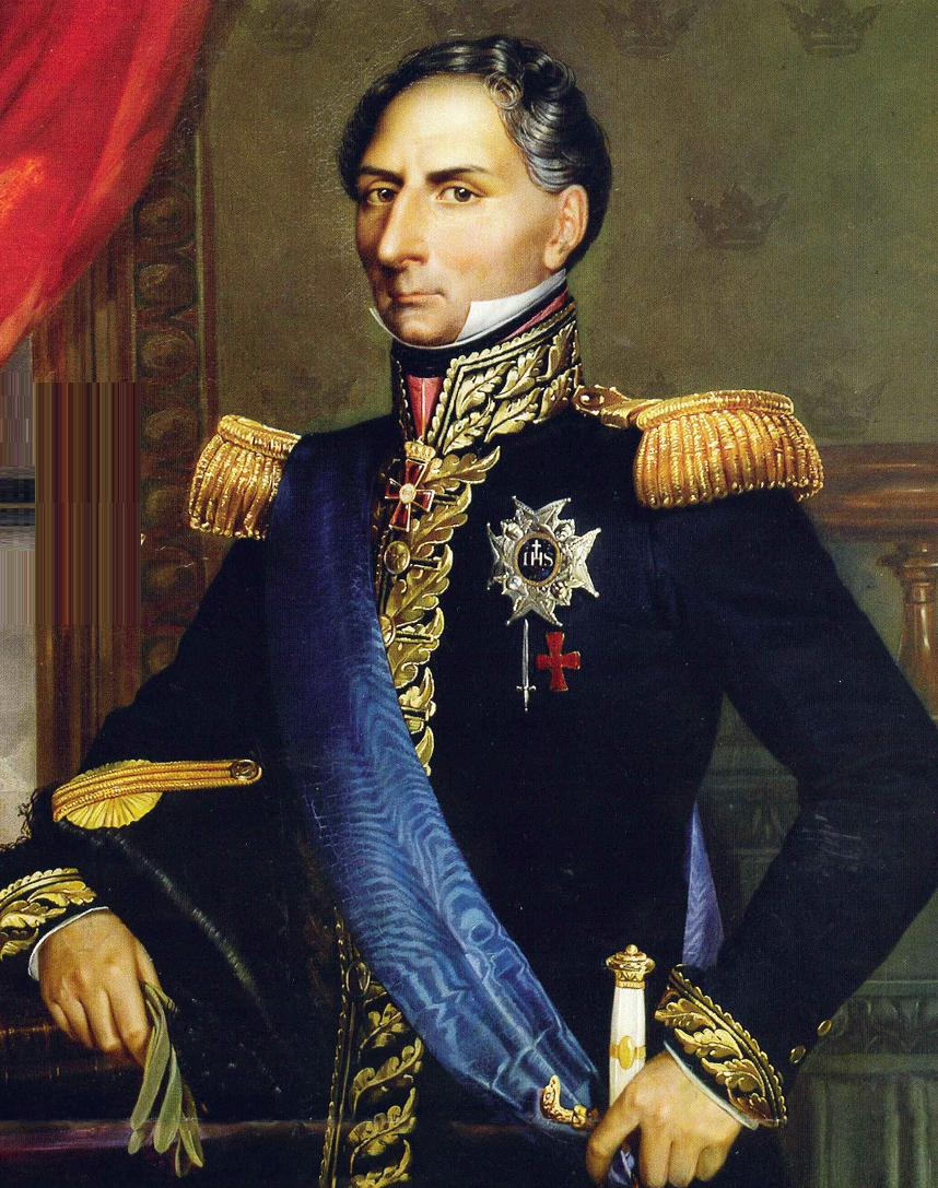 King Carl XIV John of Sweden, Carl III John of Norway